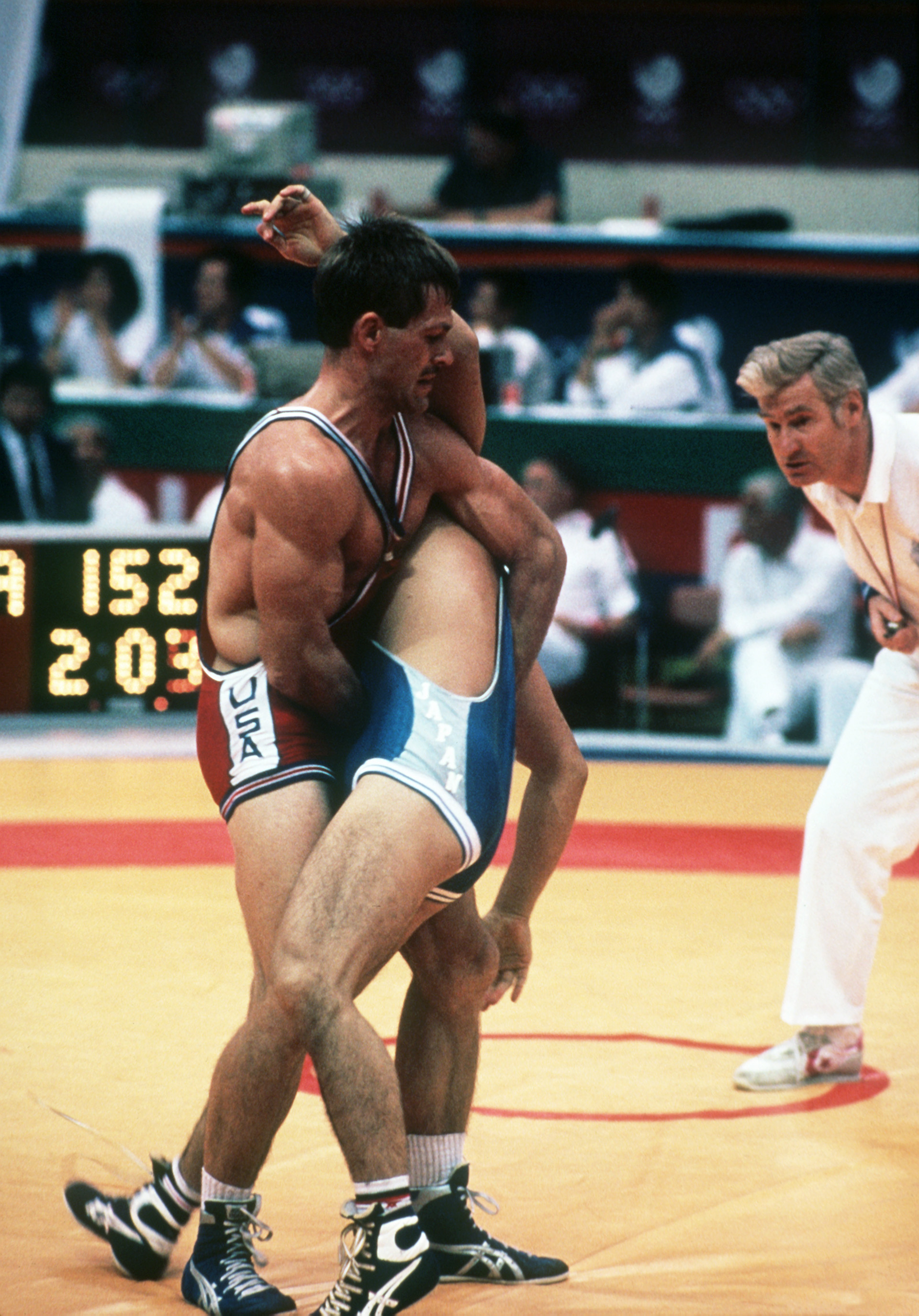 David Butler of the US Olympic wrestling team attempts a takedown move against Hiromichi Ito of Japan.